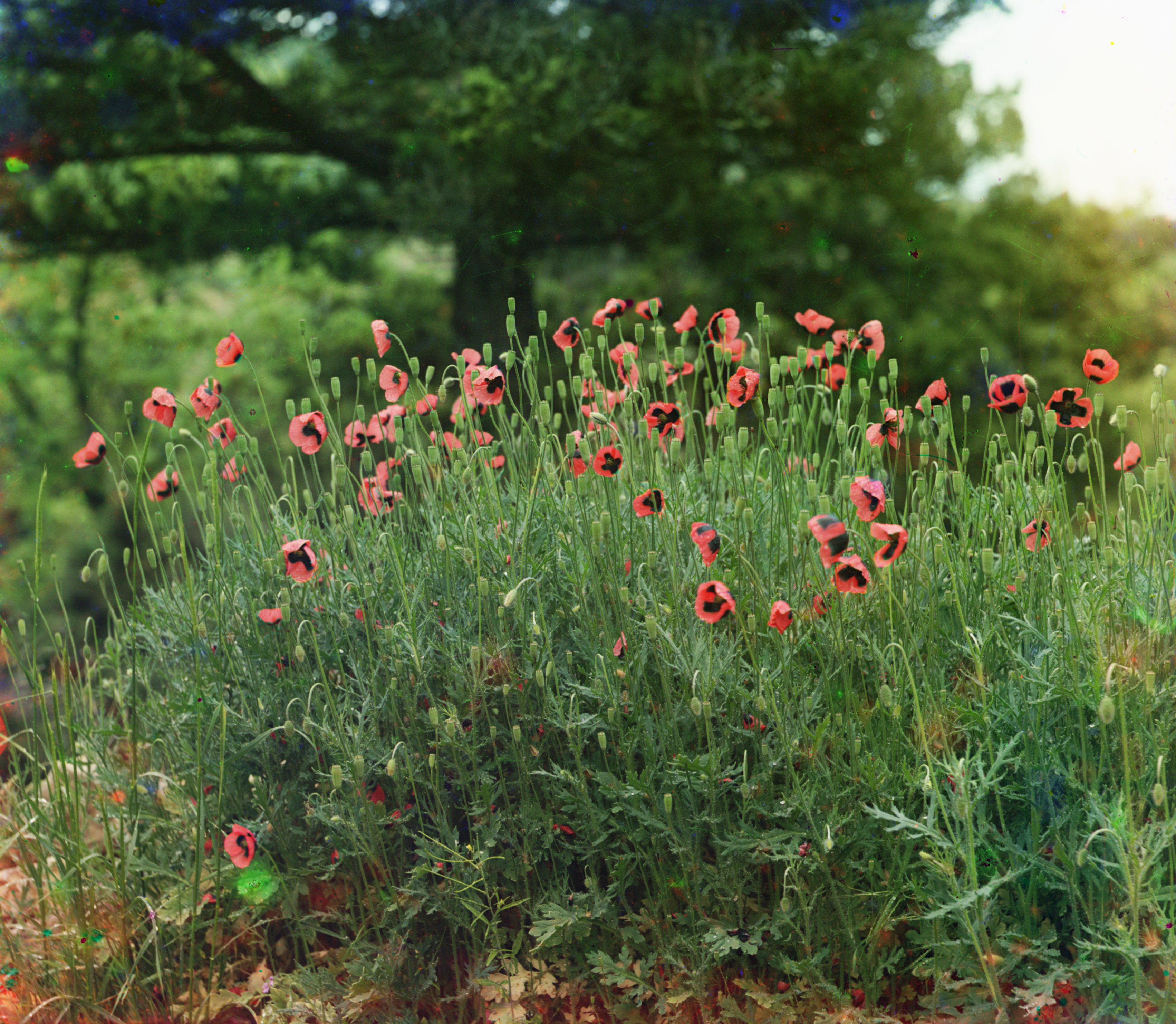 Early color photograph of poppies (Papaver sp.). Part of photographer's work to document the Russian Empire from 1905 to 1915.